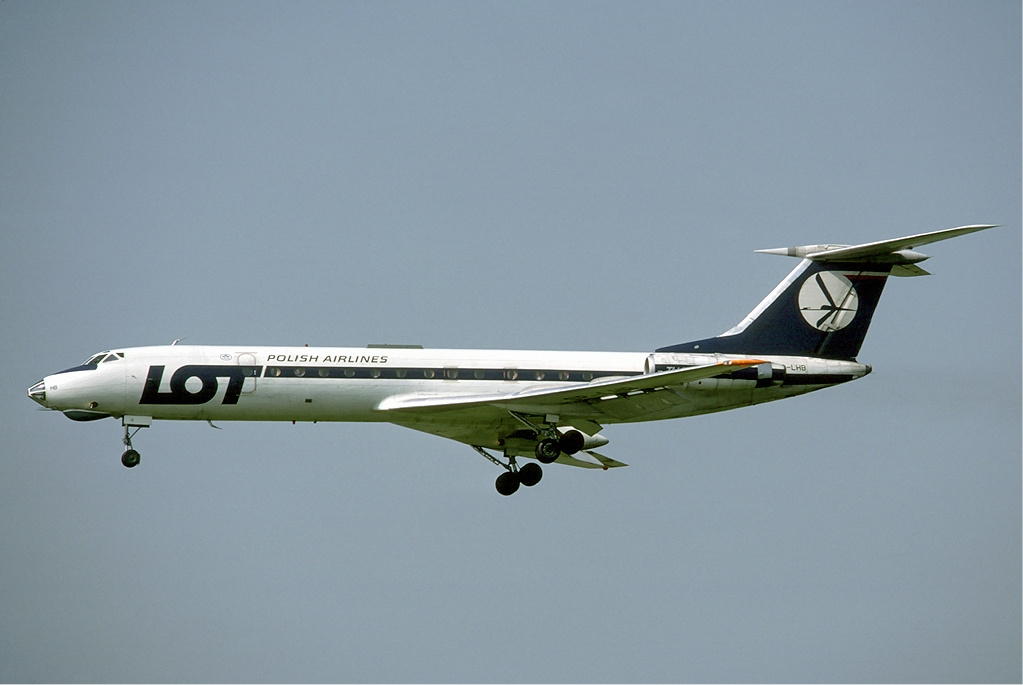 A Tupolev Tu-134 of LOT at Zurich Airport.